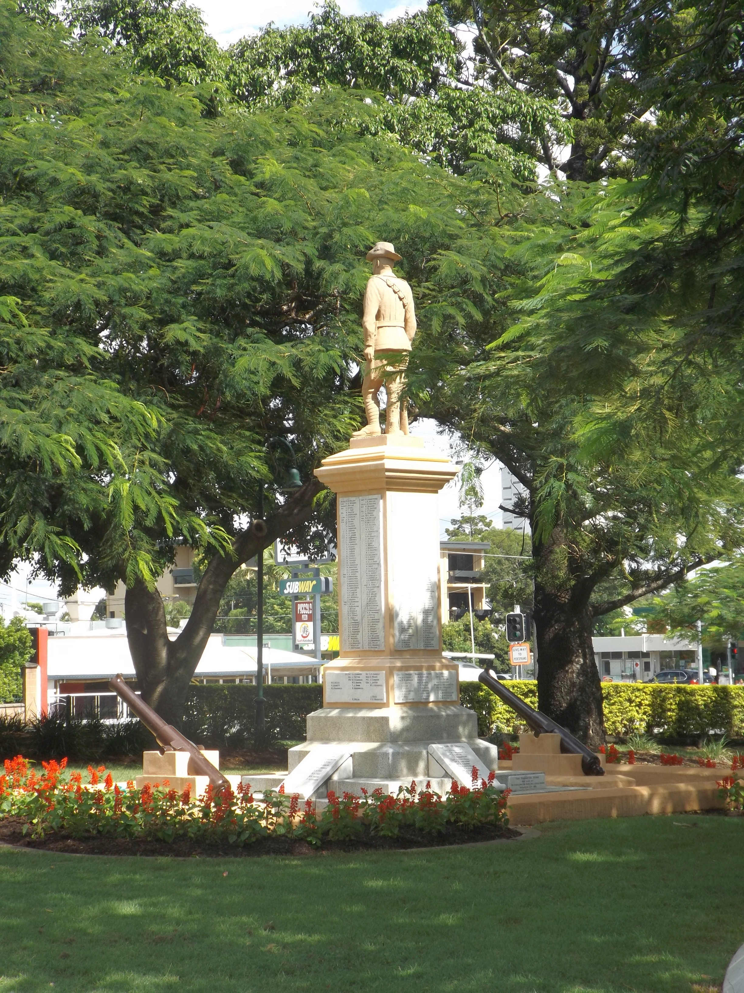 Photo of Mowbray Park War Memorial in East Brisbane, Brisbane, Queensland, Australia.